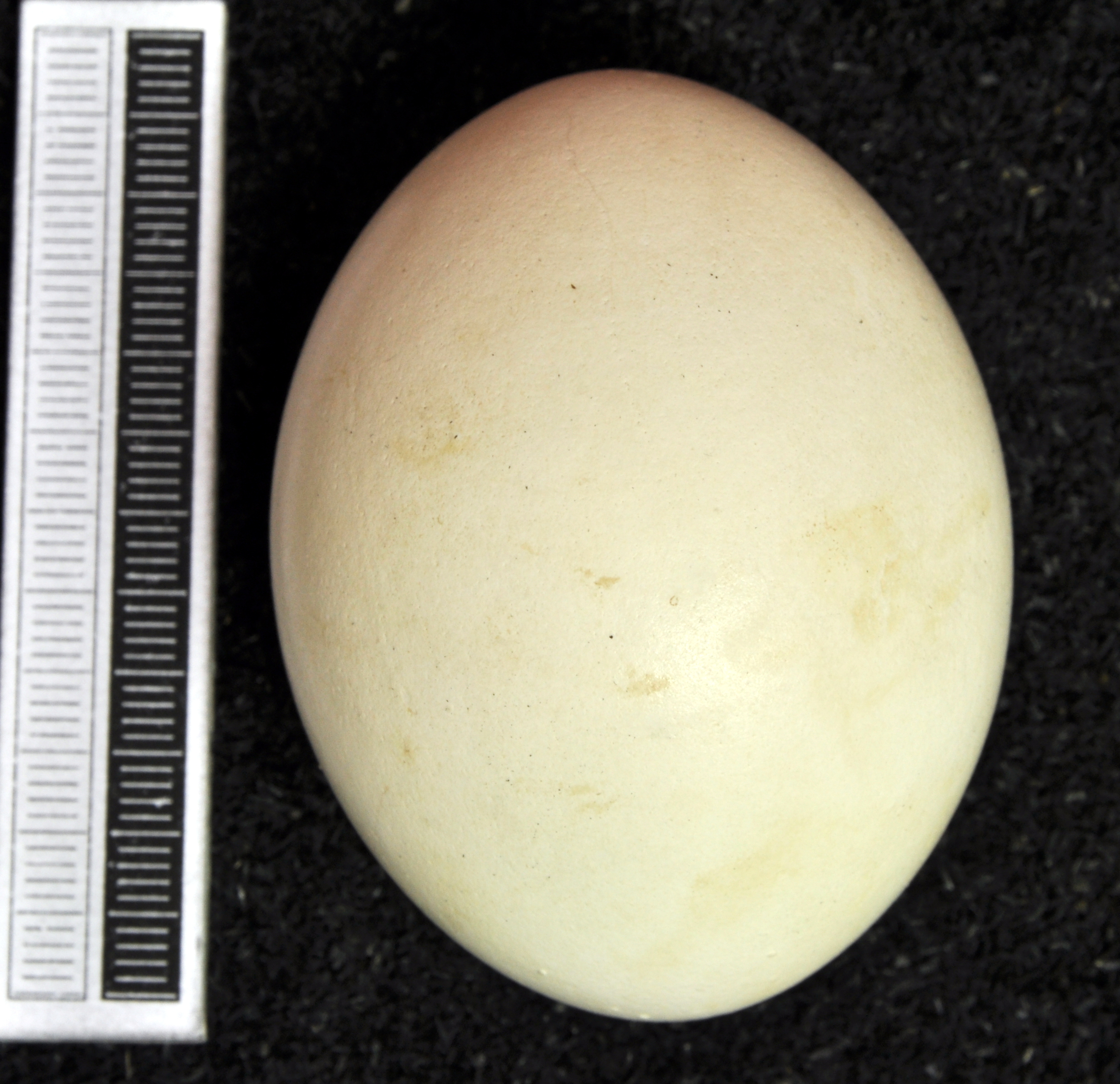 Snowy owl Nyctea scandiaca , egg, Coll. Museum Wiesbaden